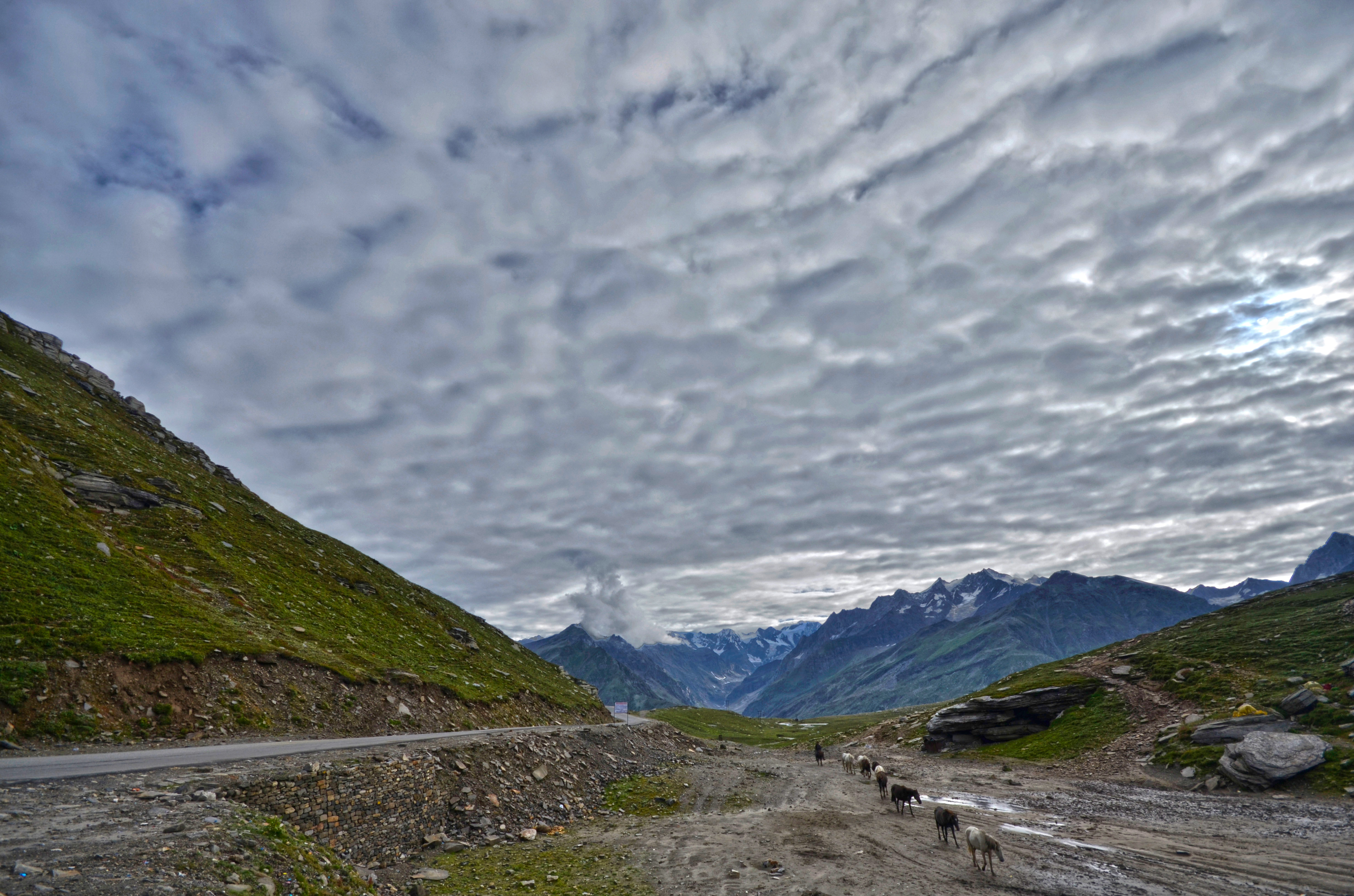 View from Rohtang Pass